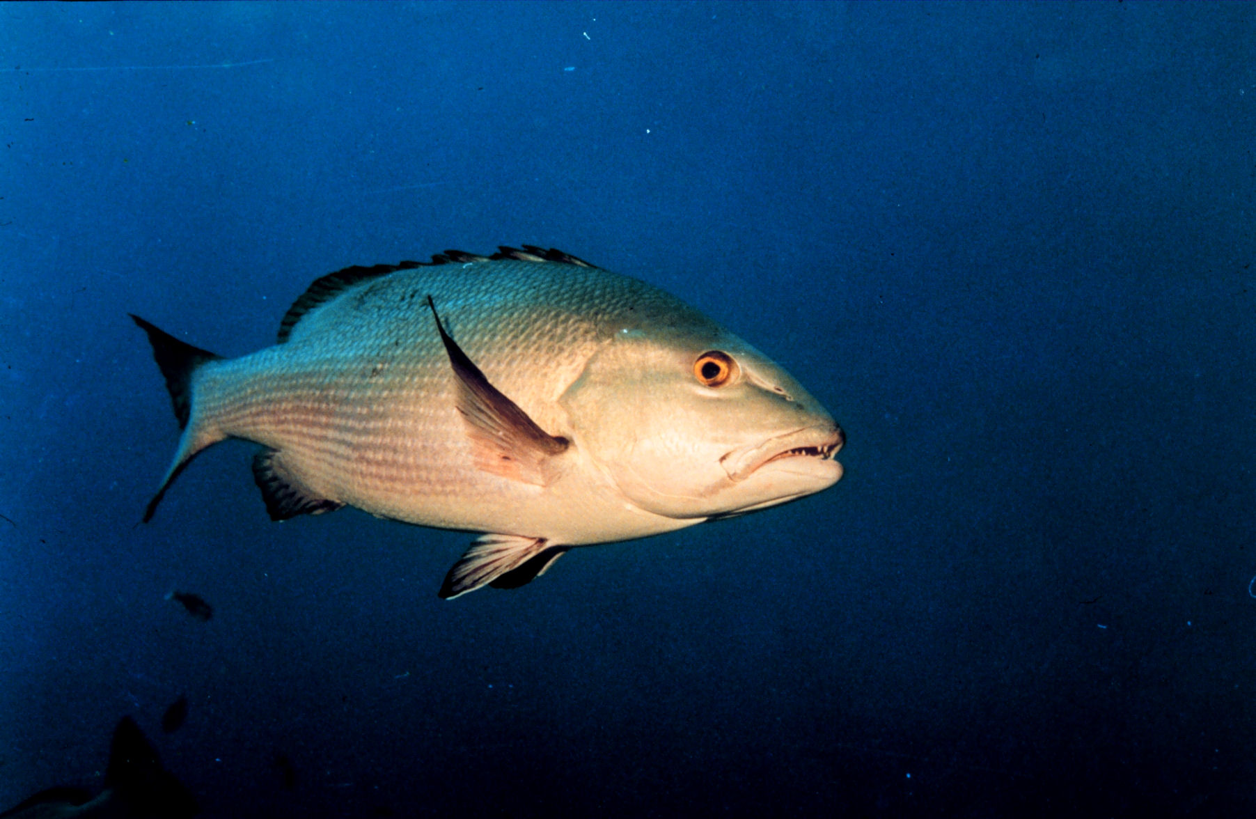 Lutjanus bohar